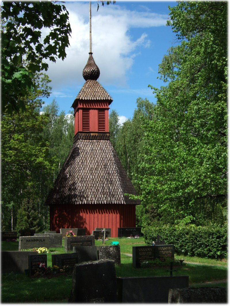 The bell tower of Somerniemi church in Somero, Finland